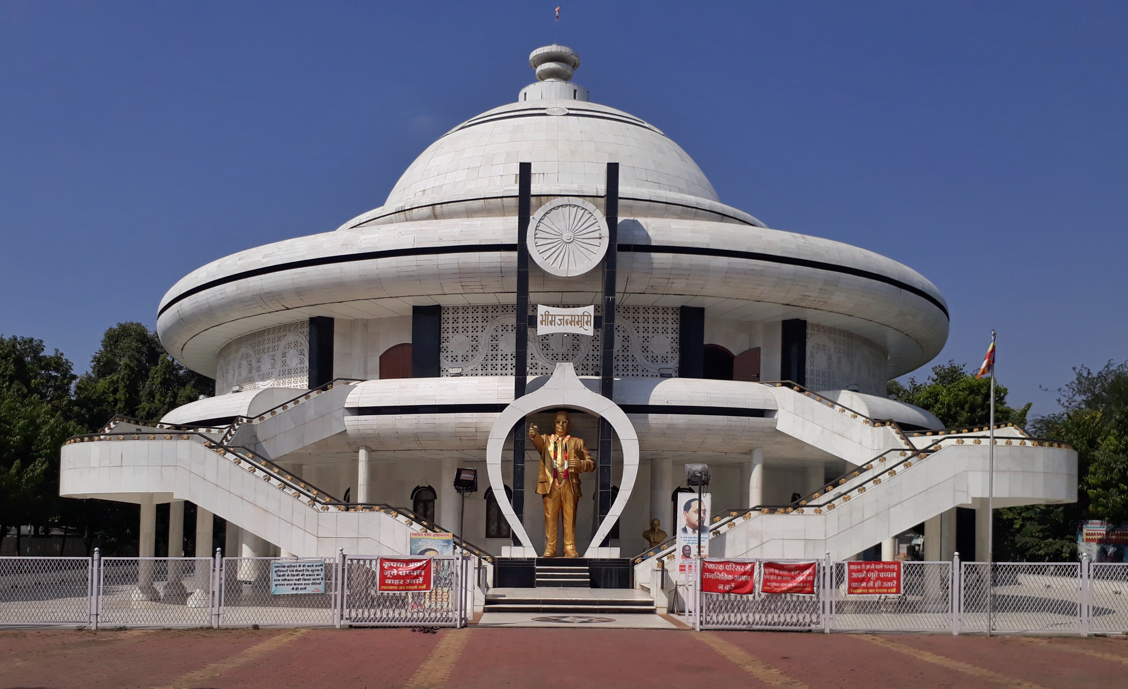 Memorial of Dr. Bhimrao Ambedkar